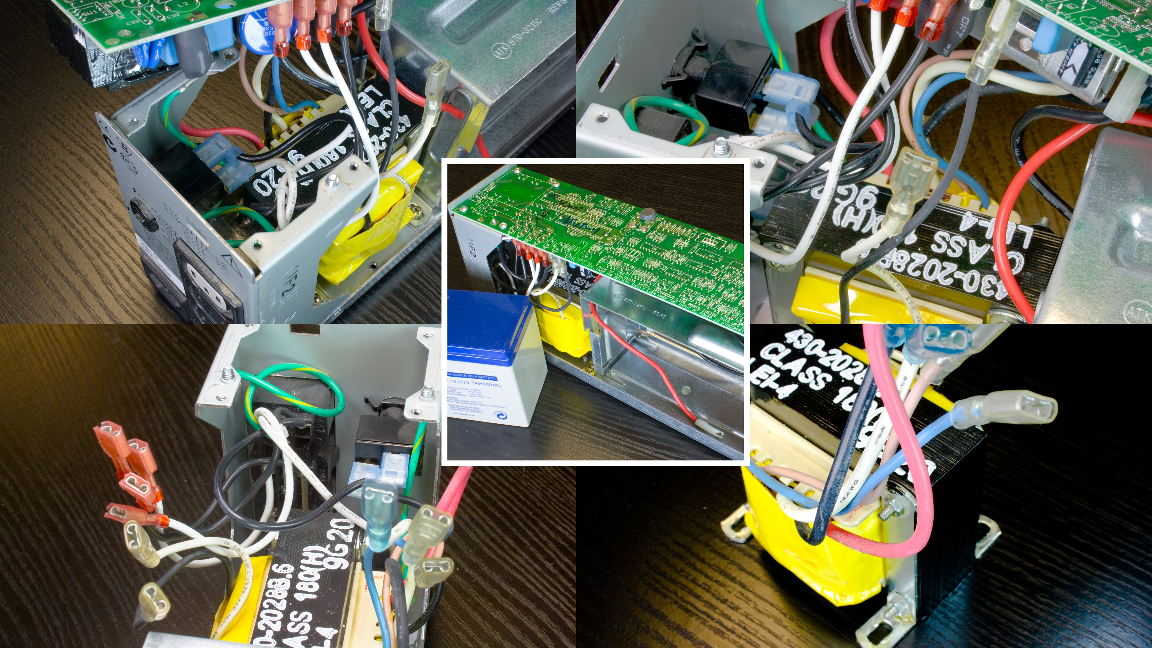 uninterruptible power supply